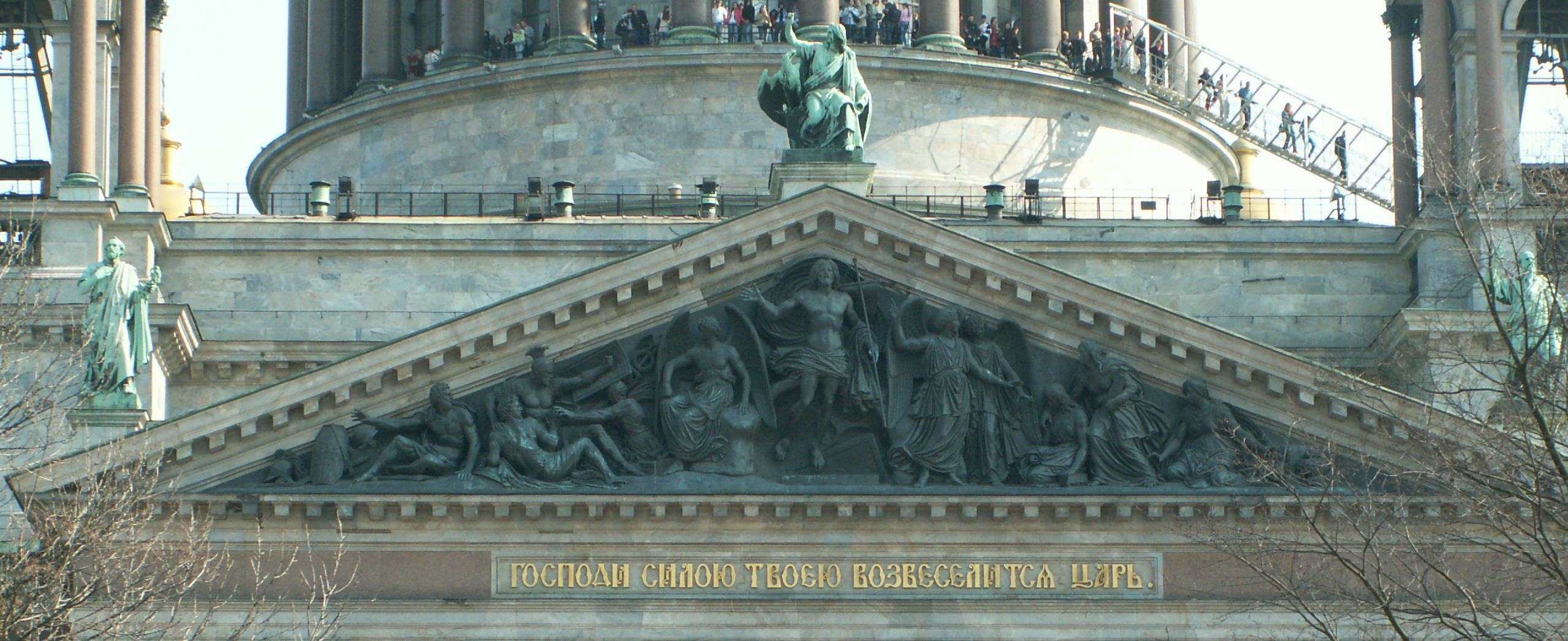 The north front (pediment) of St. Isaac cathedral in Saint Petersburg (Russia). Северный фасад (фронтон) Исаакиевского собора в Санкт-Петербурге (Россия). Author: User:LoKi Date: 1 May 2006